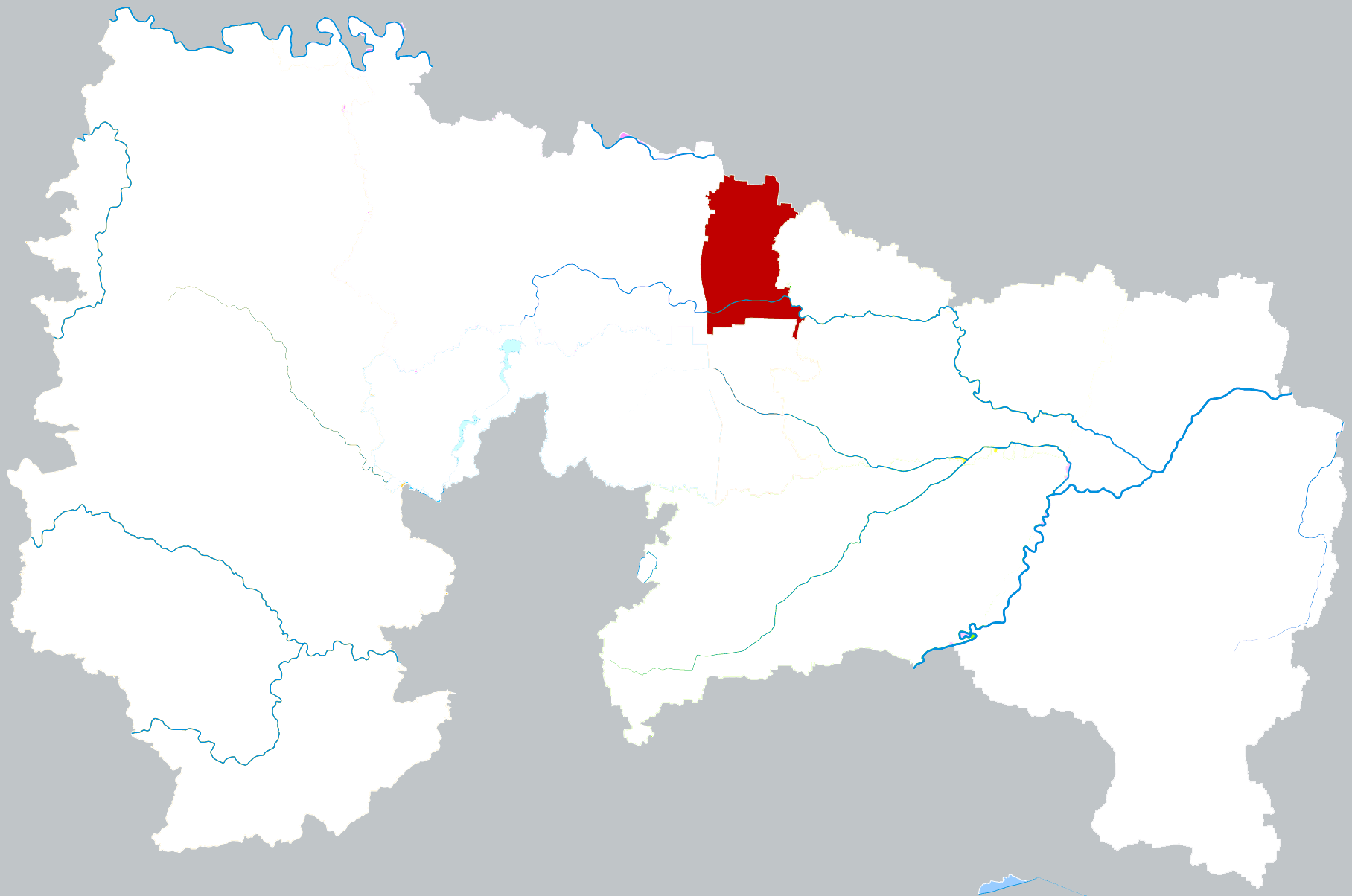 Location of Beiguan district in Anyang city, China